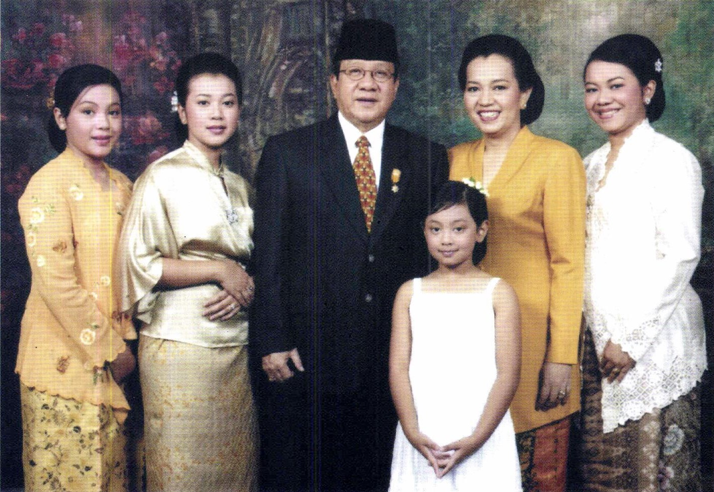 Akbar Tandjung and his family.